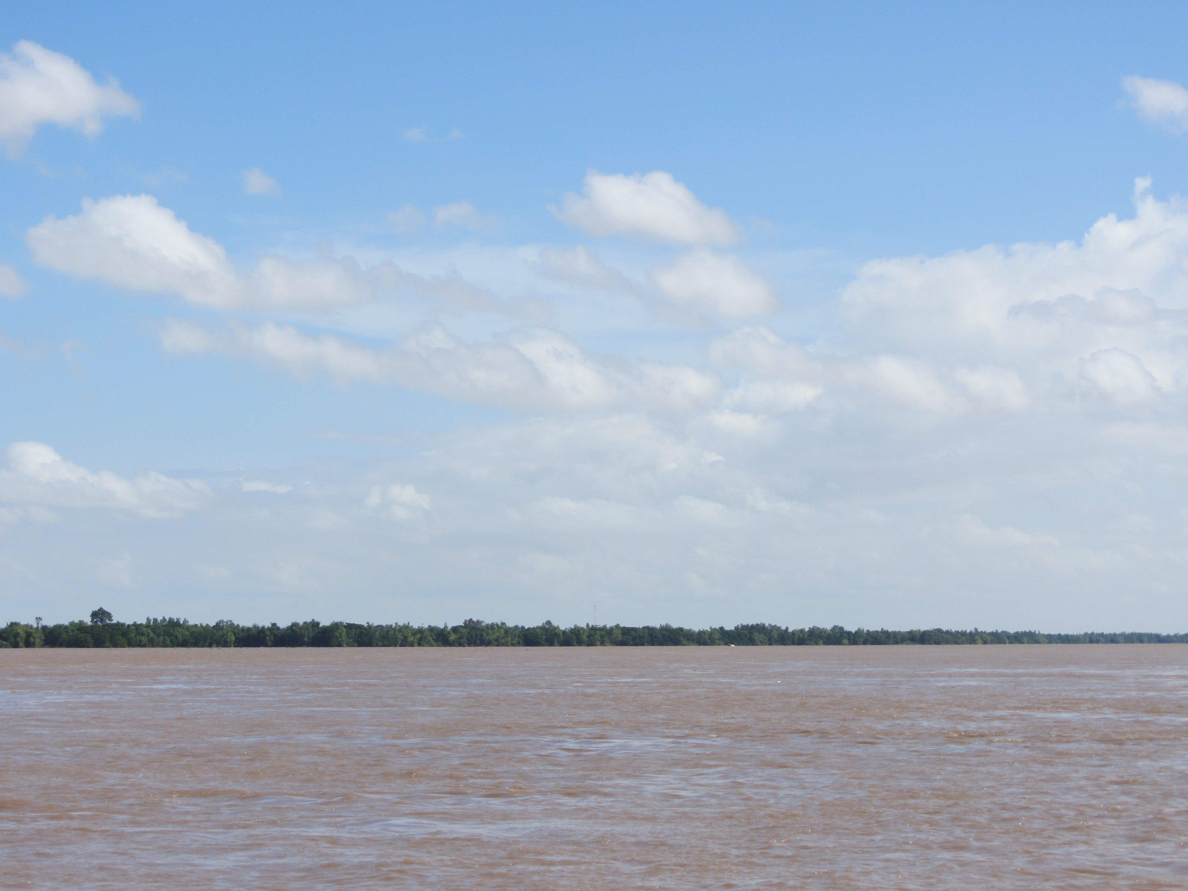 Mekong River (Neak Leung)